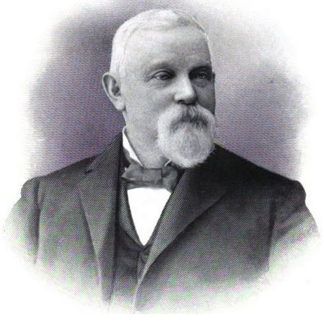 George Hires (New Jersey Congressman)